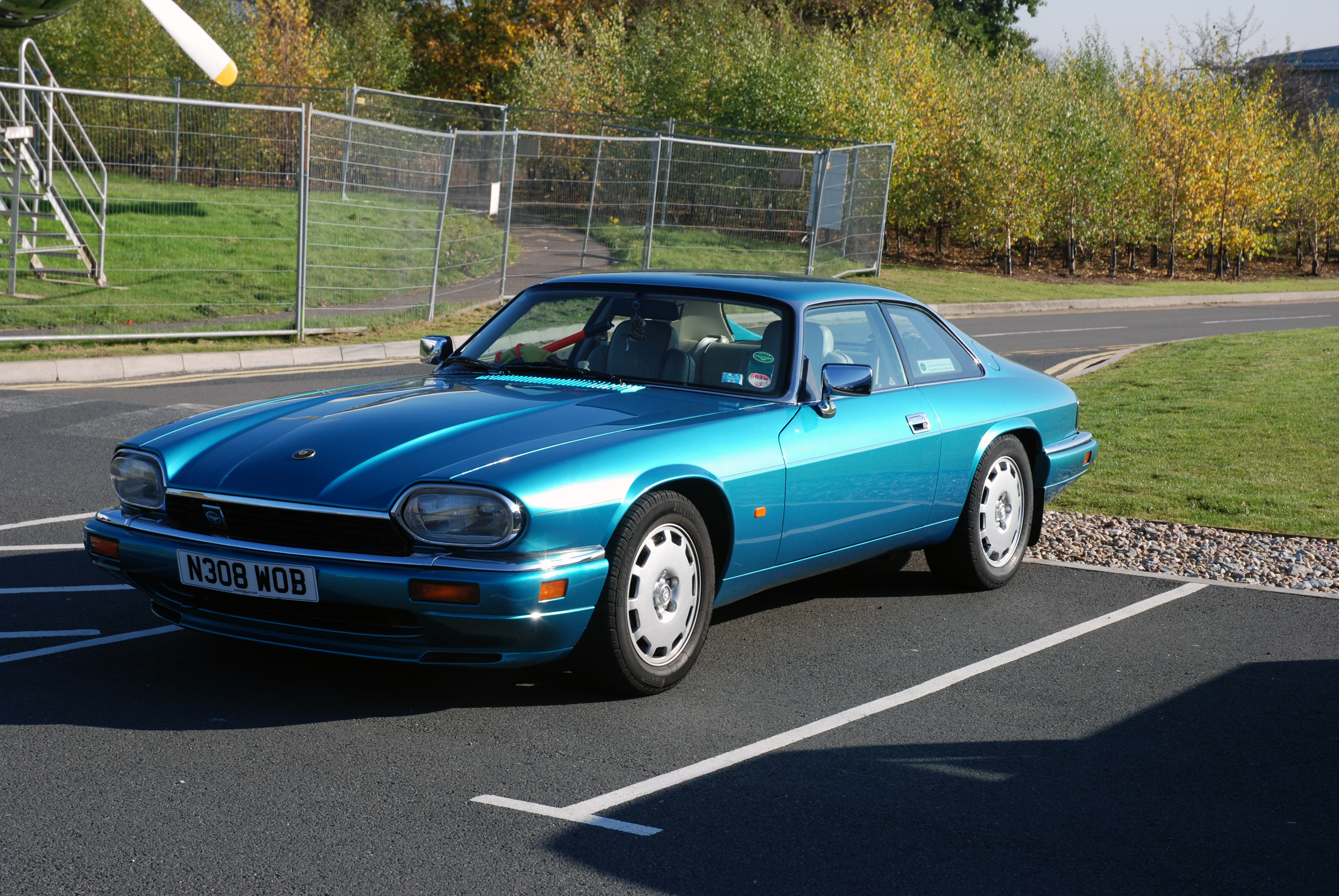 in the car park at Cosford